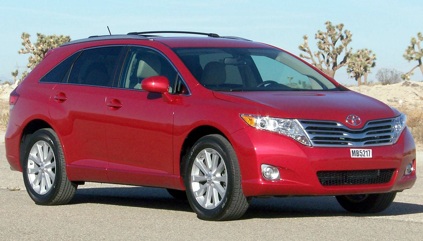 2012 Toyota Venza photographed in USA.